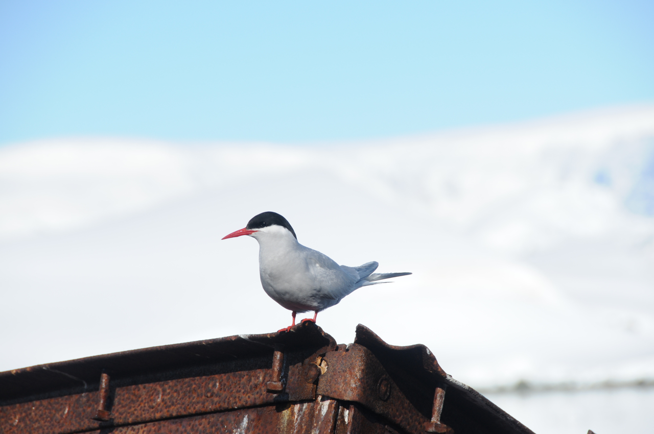 Sterna vittata - Antarctic Peninsula - Entreprise Island